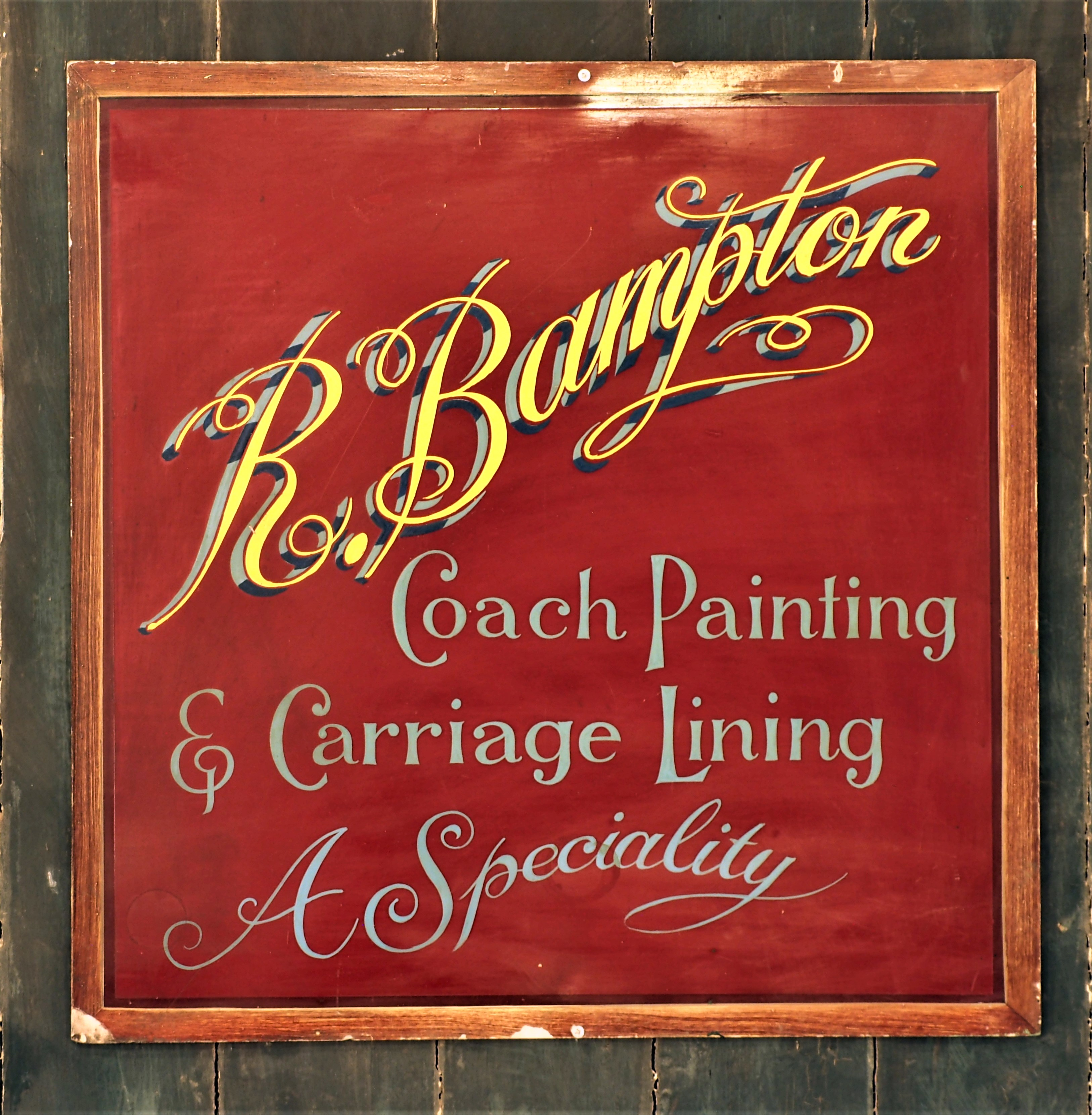 Enamel advertising sign at the Louwman museum.